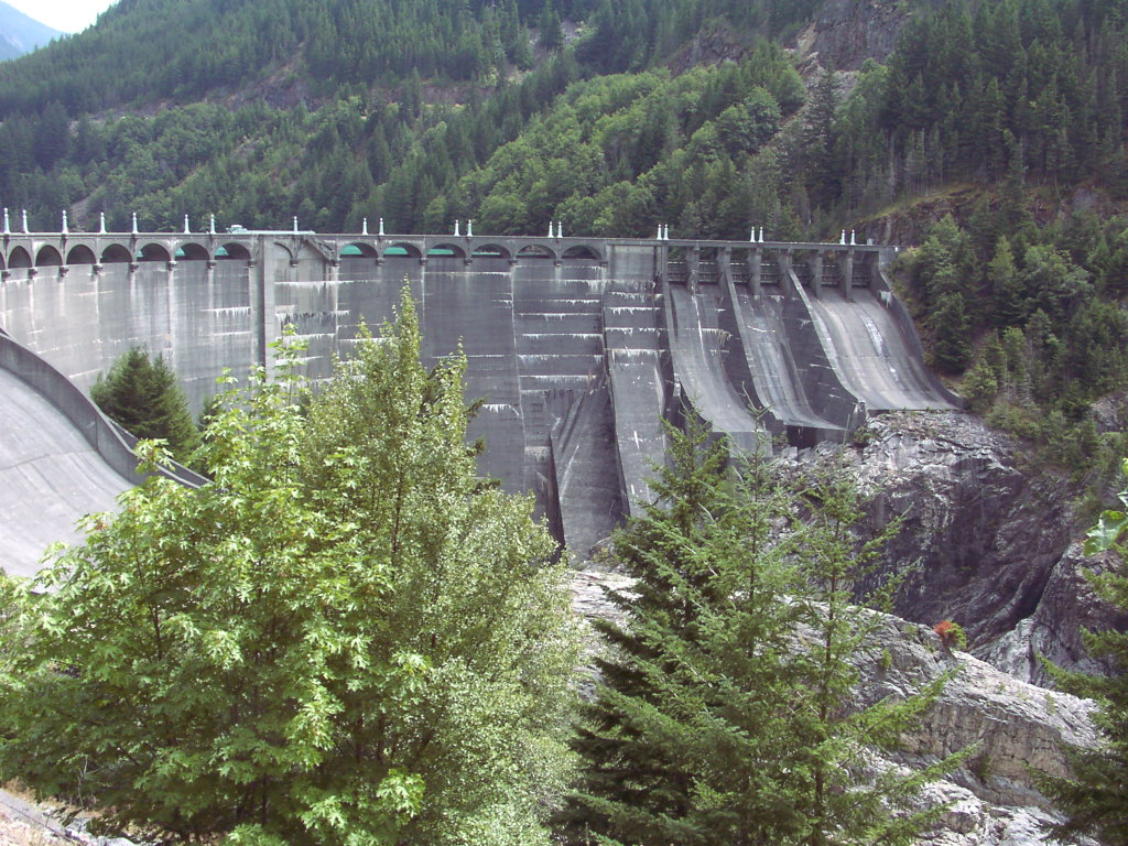 holds back lake just behind the town of Diablo